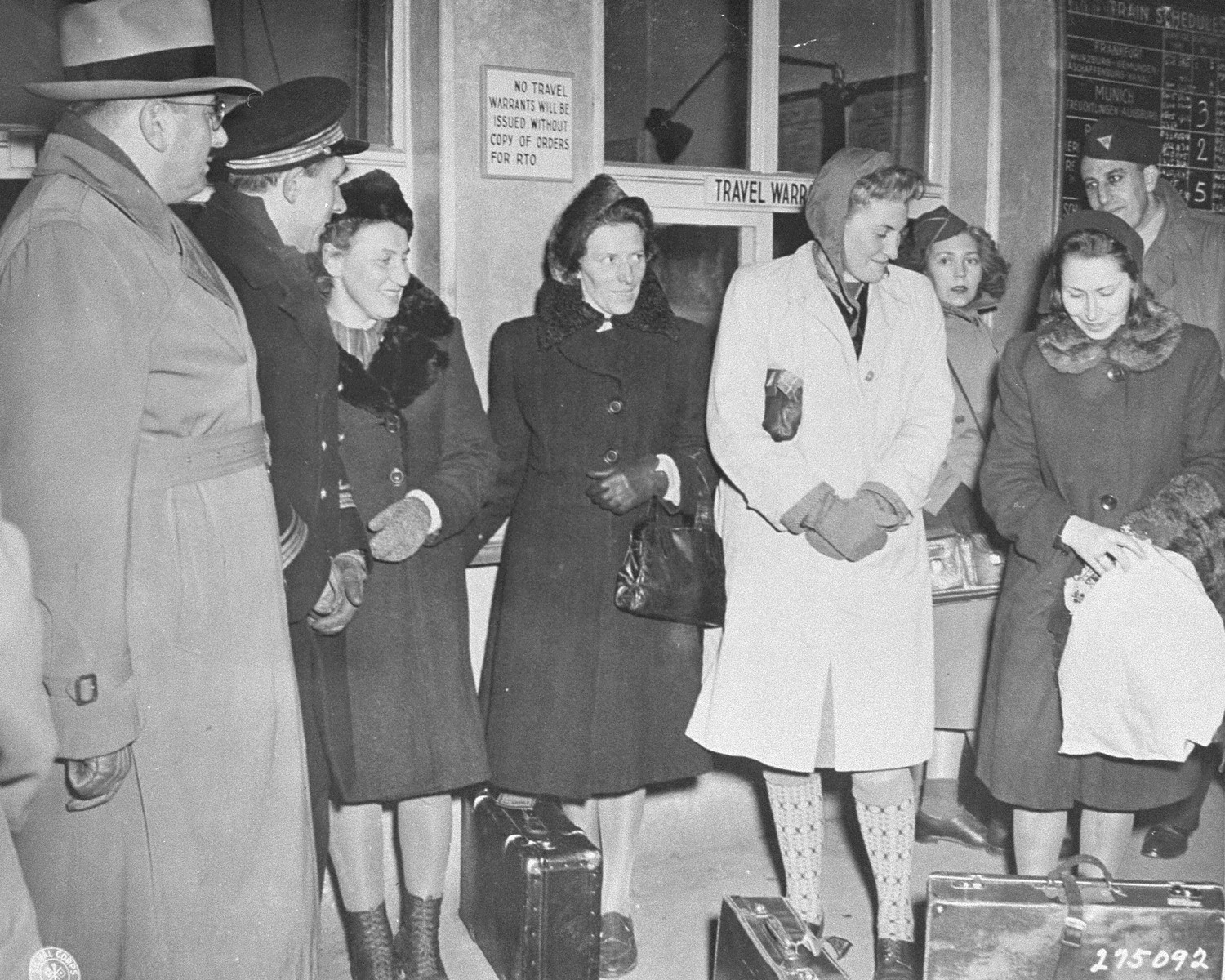 Jadwiga Dzido (Hassa), Maria Broel-Plater (Skassa), Maria Kusmierczuk and Wladislava Karolewska, all Polish women